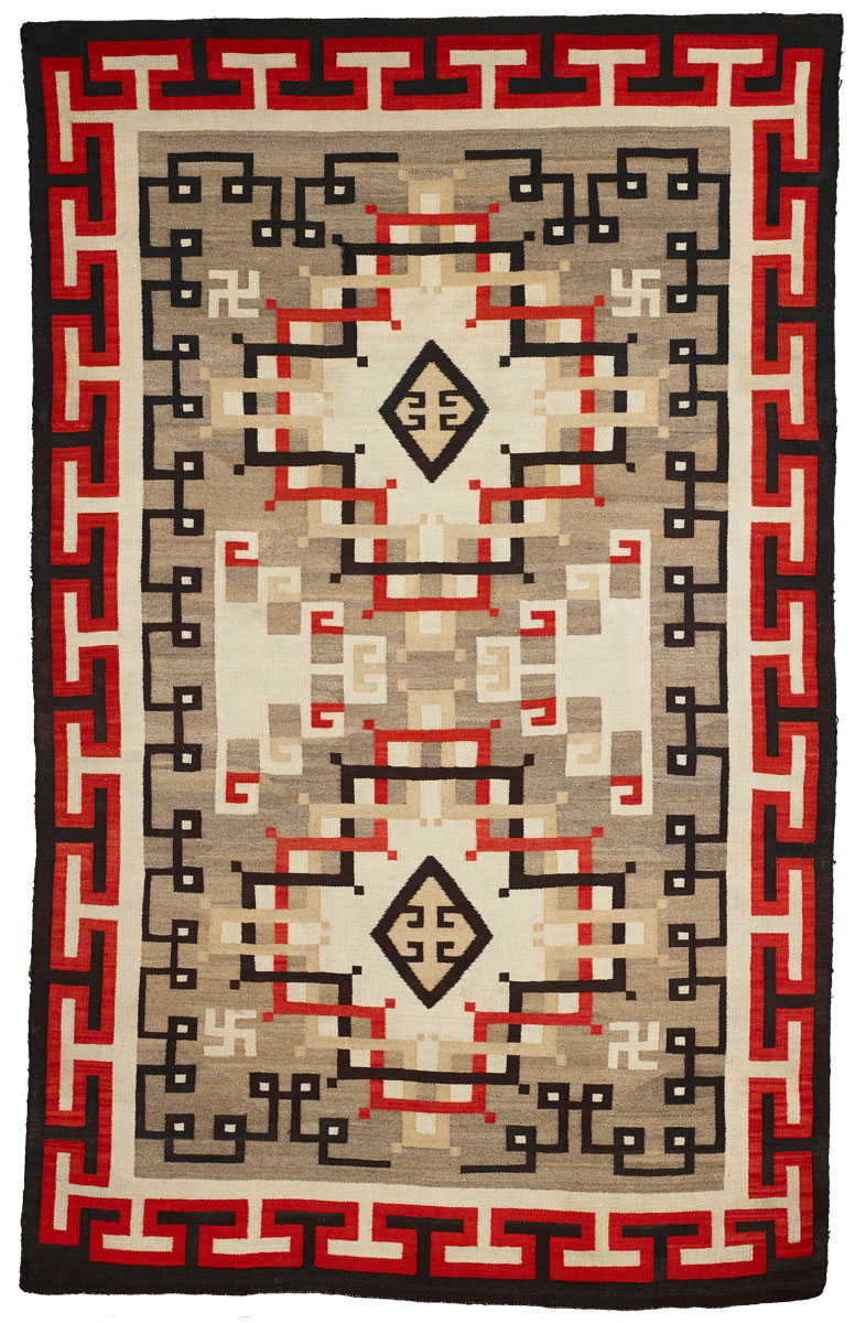 A wool rug from the Native American Navajo people. The rug is in the Early Crystal style.